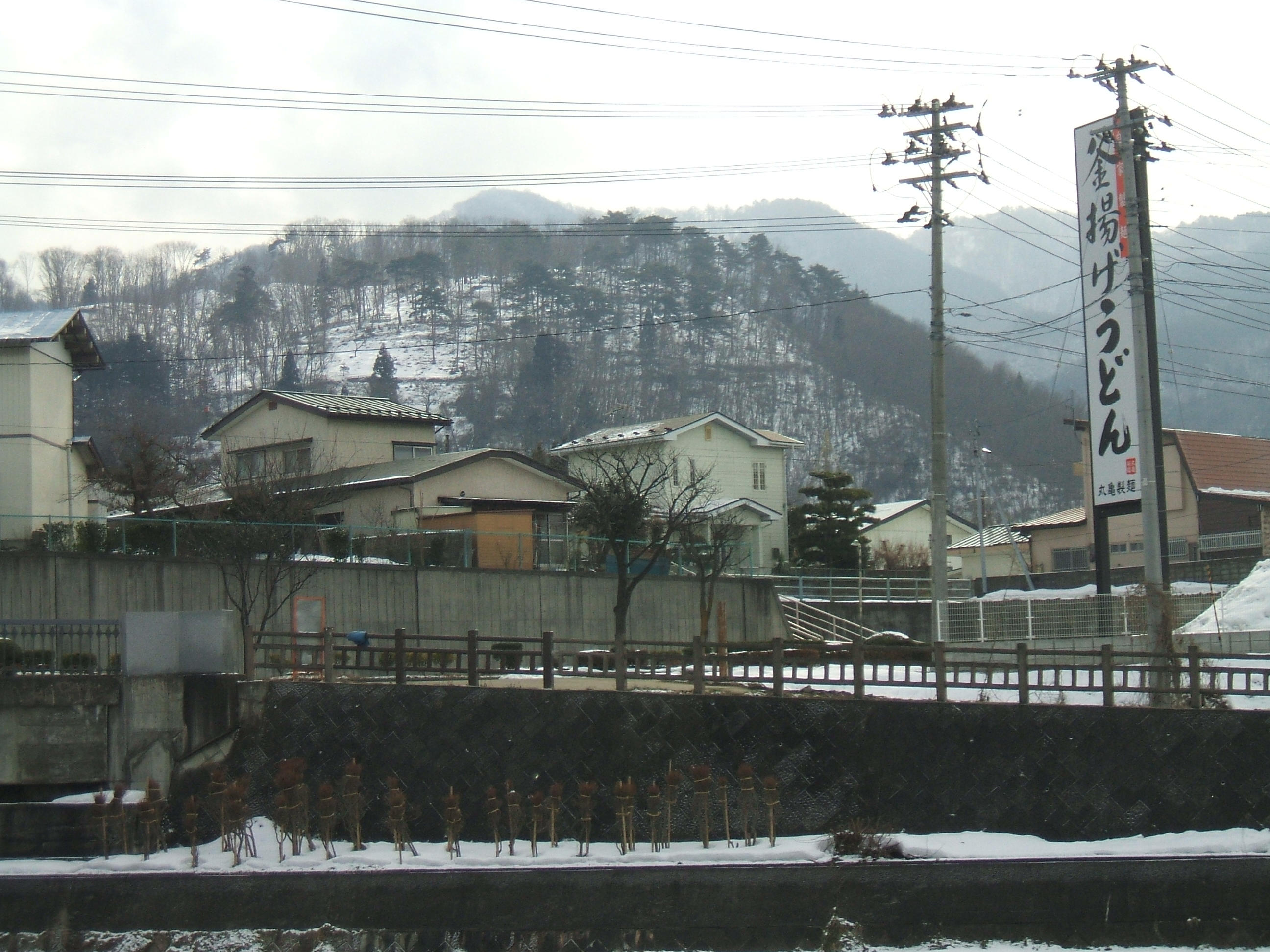 This is a landscape of Mt.Odayama. It's taken at Aizuwakamatsu, Fukushima.